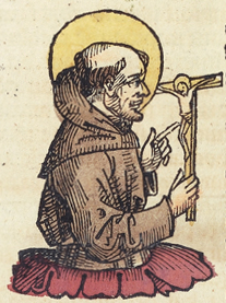 Wood cut from the Nuremberg Chronicle (Latin copy in Sao Paulo)